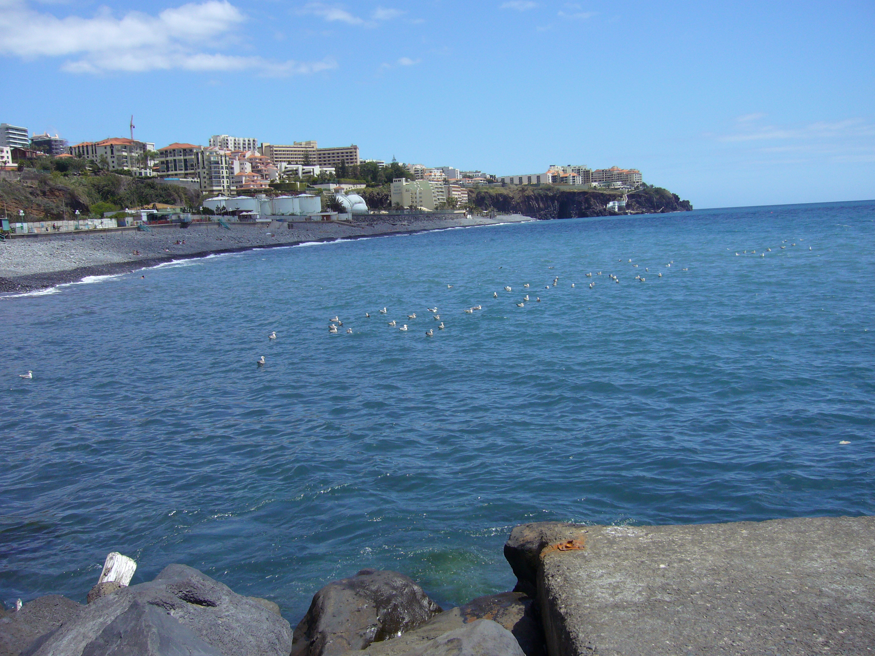 Eastern part of Praia Formosa-Funchal